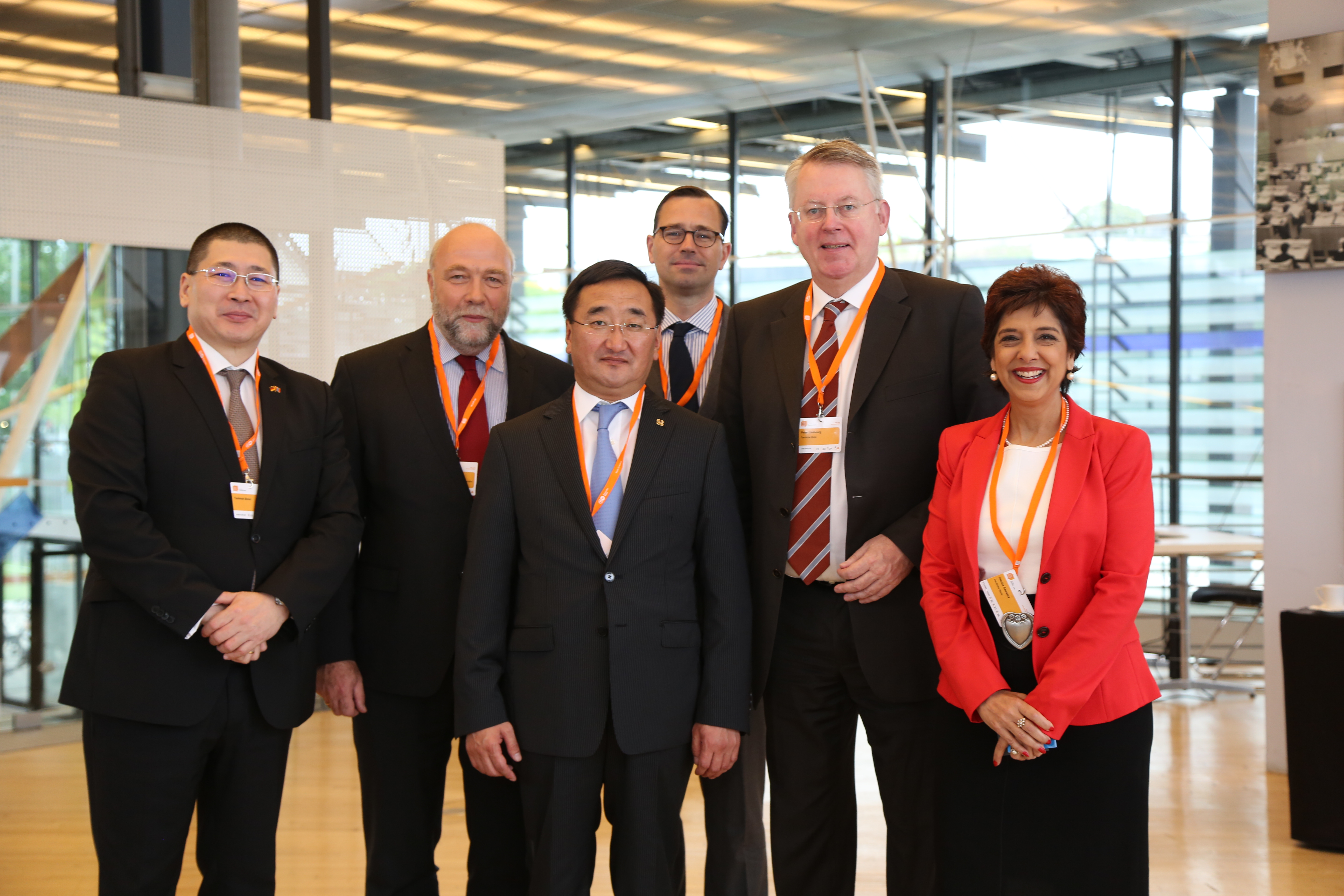 f.l.t.r.: Tsolmon Bolor (Ambassador of Mongolia), Günter Nooke (Commissioner for Africa of the Federal Ministry for Economic Cooperation and Development (BMZ), Lundeg Purevsuren (Minister for Foreign Affairs of Mongolia), Jan F. Kallmorgen (Partner, Global Practice, Interel and Co-Founder Atlantic Initiative, Germany), Peter Limbourg (Director General, Deutsche Welle, Germany) and Dr. Amrita Cheema (Anchor and Journalist, DW, Germany) © DW/M. Magunia